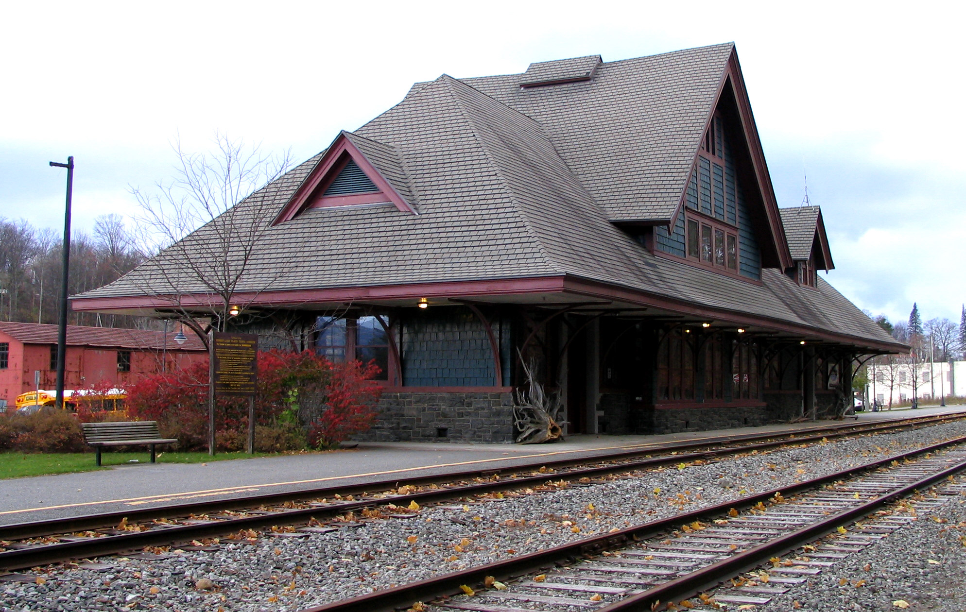 Adirondack Scenic Railroad - Saranac Lake Station. Taken by User:Mwanner 6 November, 2007.